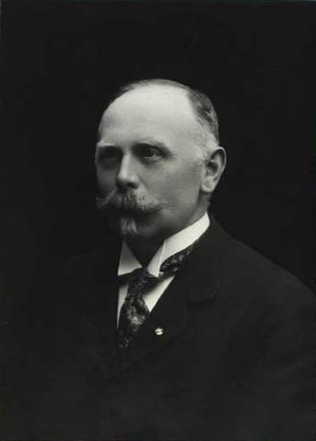 Danish railway architect, professor Heinrich Wenck (1851-1936)